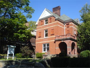 A picture of the Drexel (Alpha Upsilon) chapter house of the Pi Kappa Phi Fraternity.